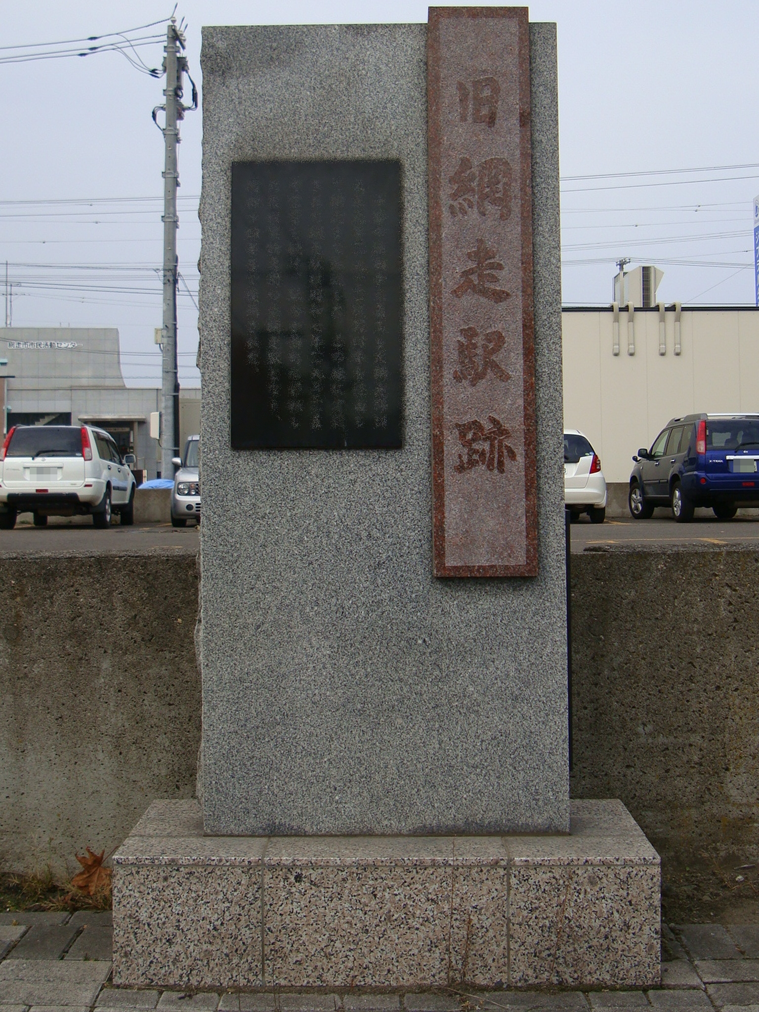 Abashiri Station